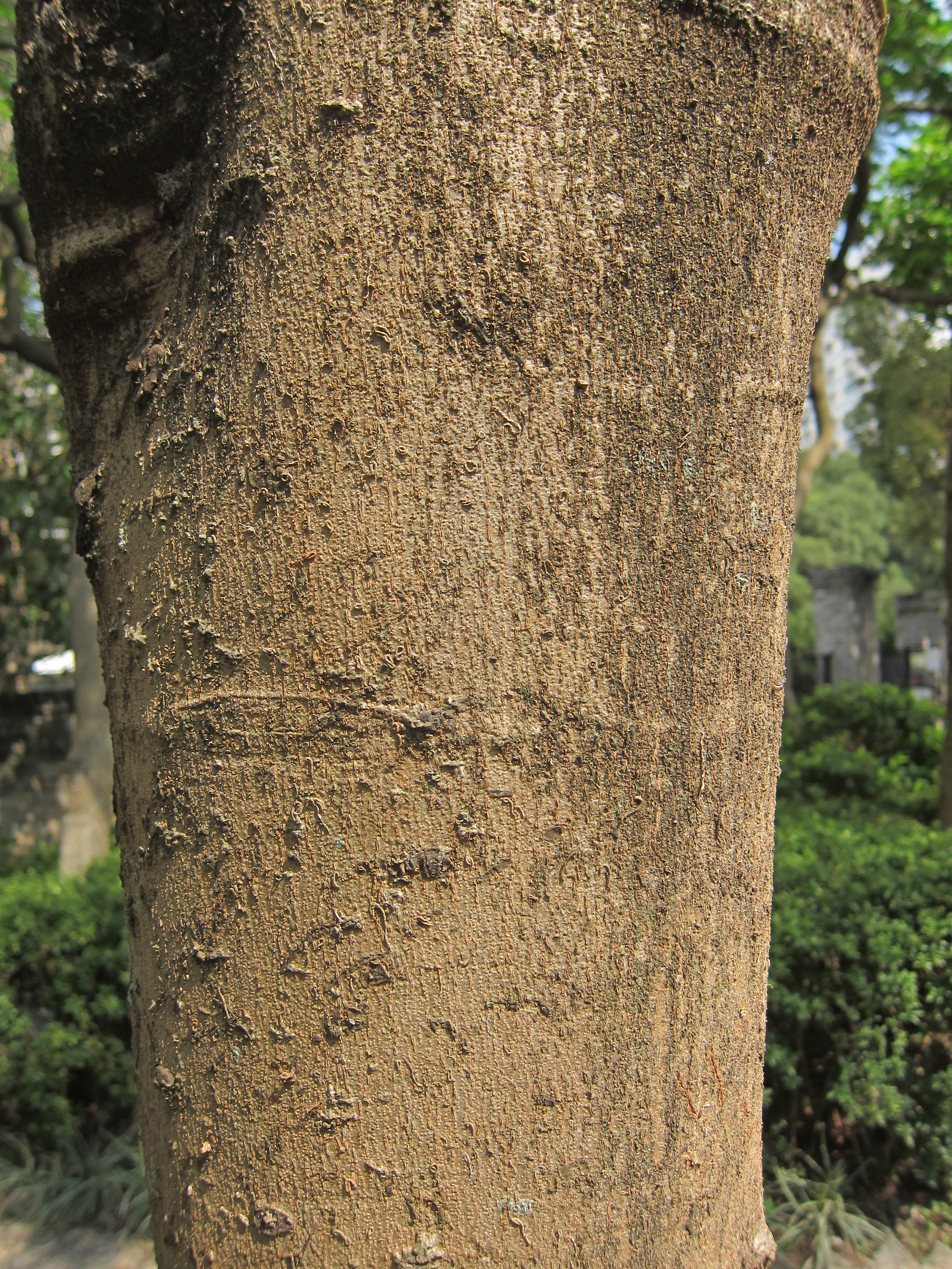 Bark of Delonix regia in Kowloon Walled City Park, Hong Kong